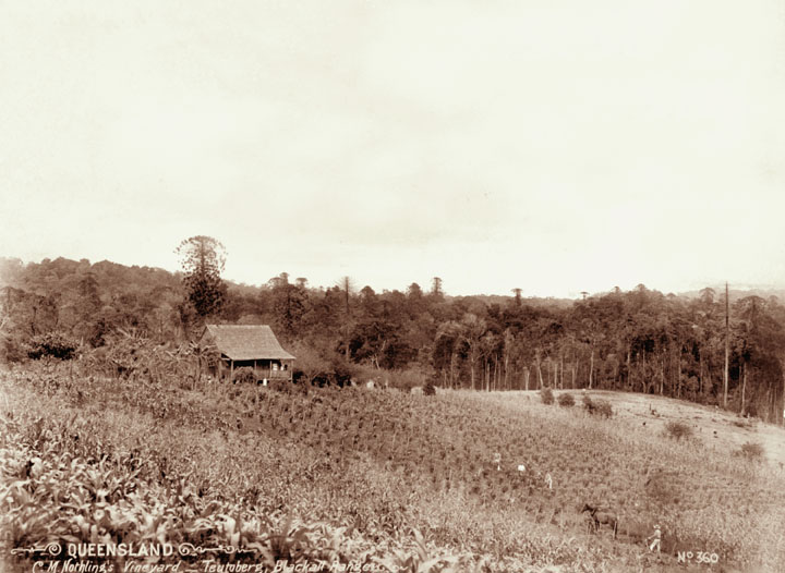 C M Nothling's vineyard and shingle roof cottage at Teutoberg, Blackall Range. (Teutoberg was renamed as Witta in 1916. Register listing indicates Maleny-Blackall Range.)